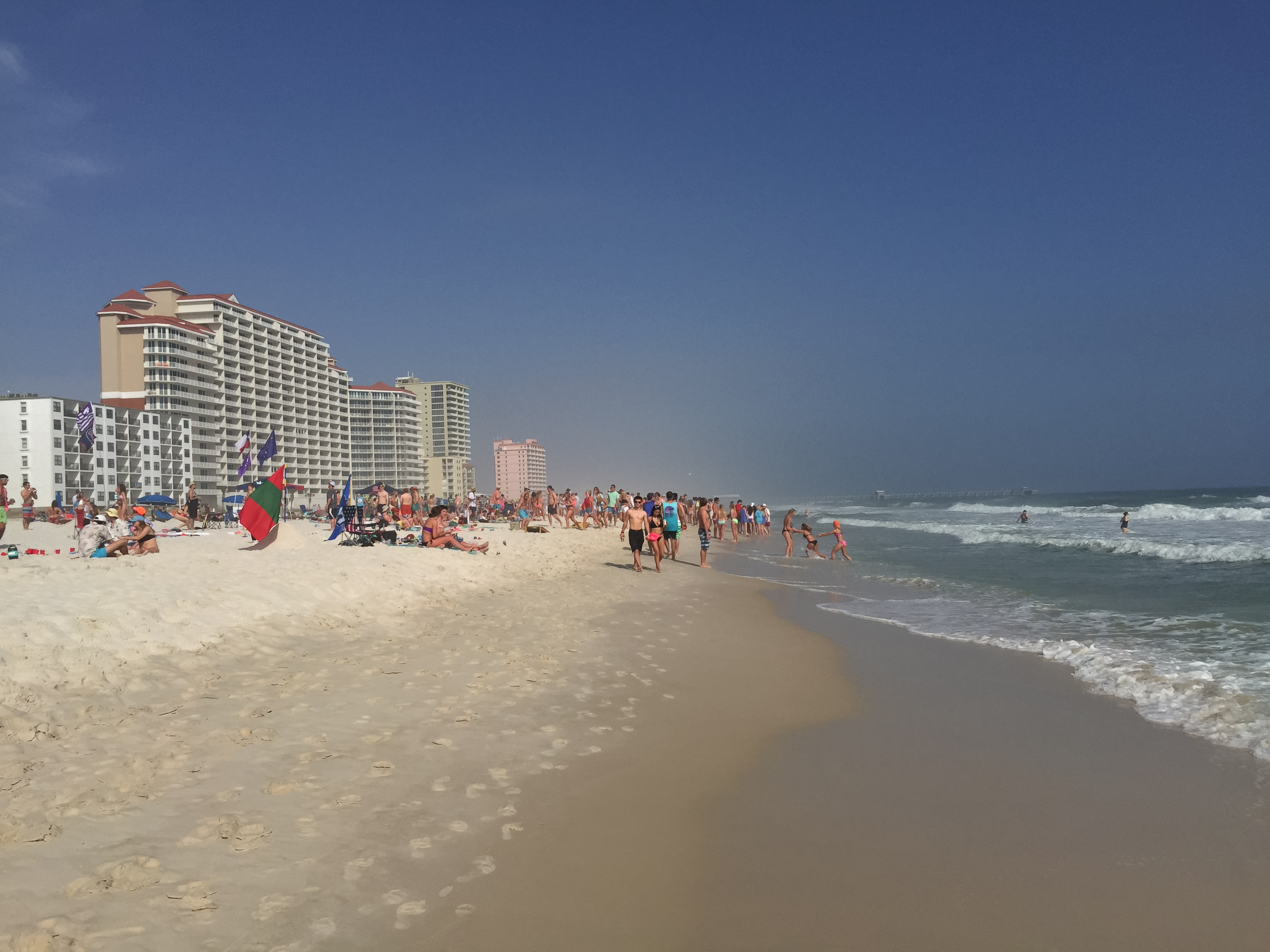 View of the beach in Gulf Shores, Alabama during Spring Break.